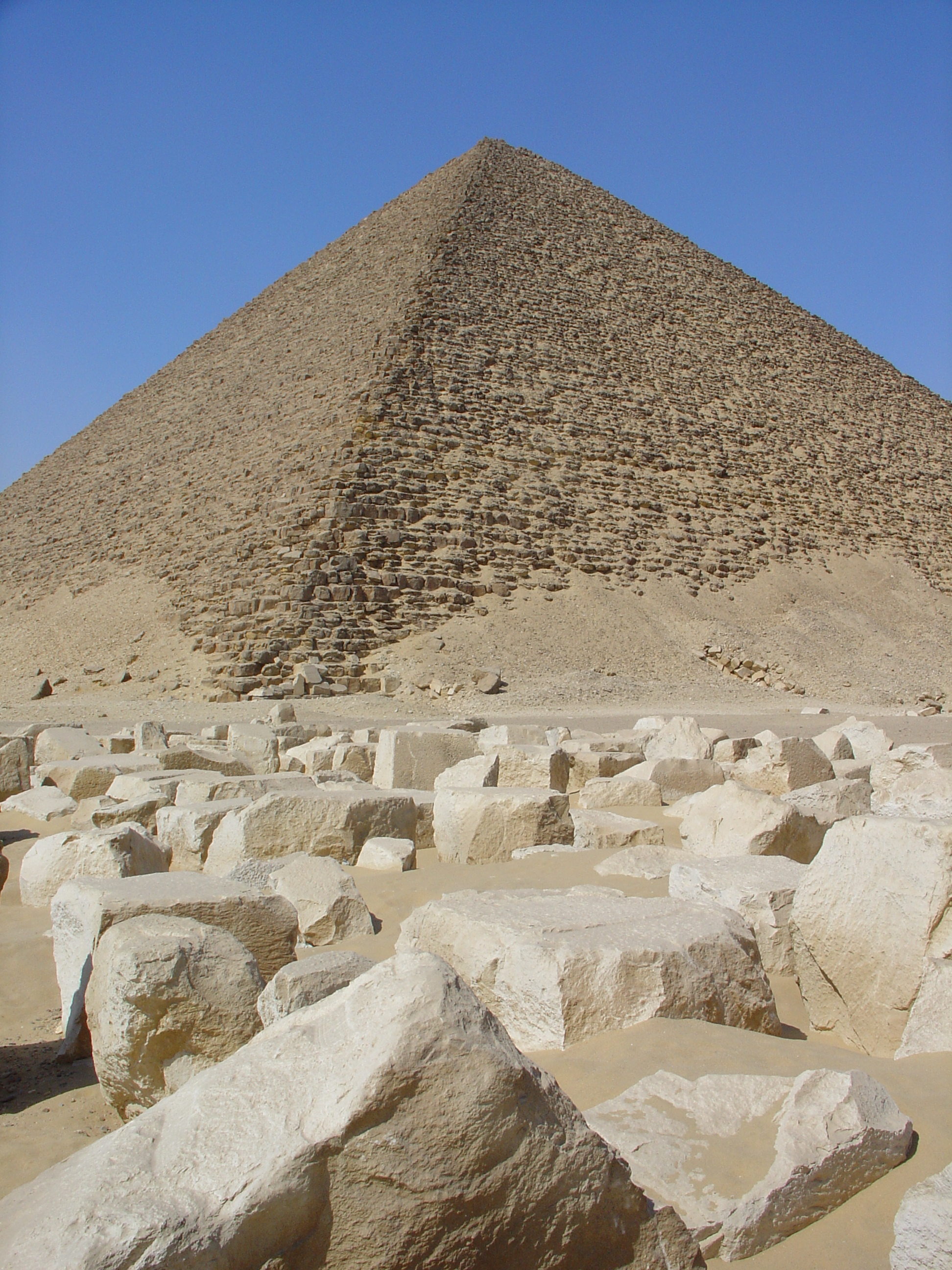 Snofru's Red Pyramid in Dahshur (2)